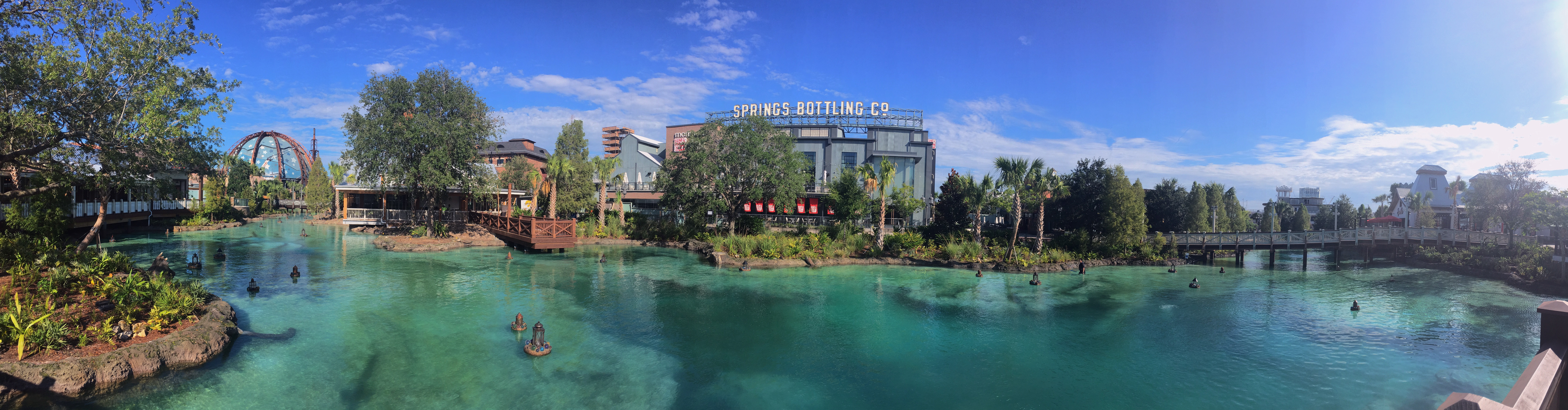 Disney Springs formerly known as Downtown Disney is now open and I must say I'm impressed with what they have done with the place!!